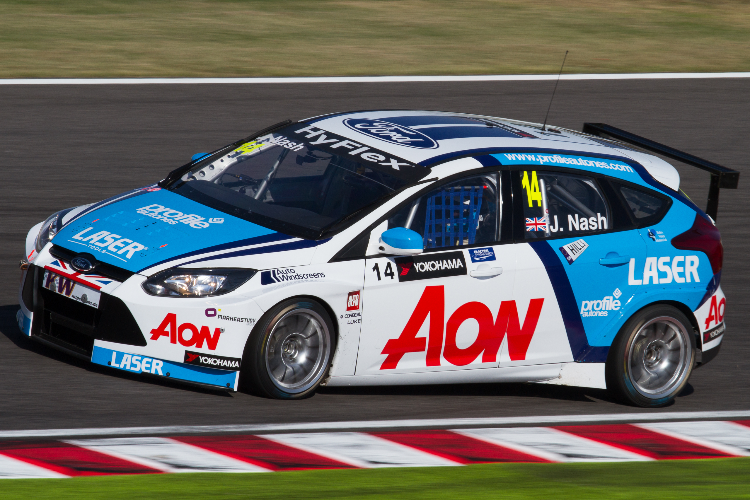 World Touring Car Championship 2012 Race of Japan: James Nash (Team Aon) driving the Ford Focus S2000 TC